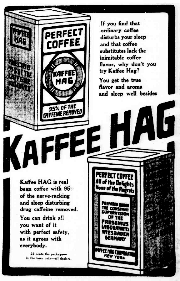 New York newspaper ad for Kaffee HAG. Cropped and contrast adjusted by the uploader.